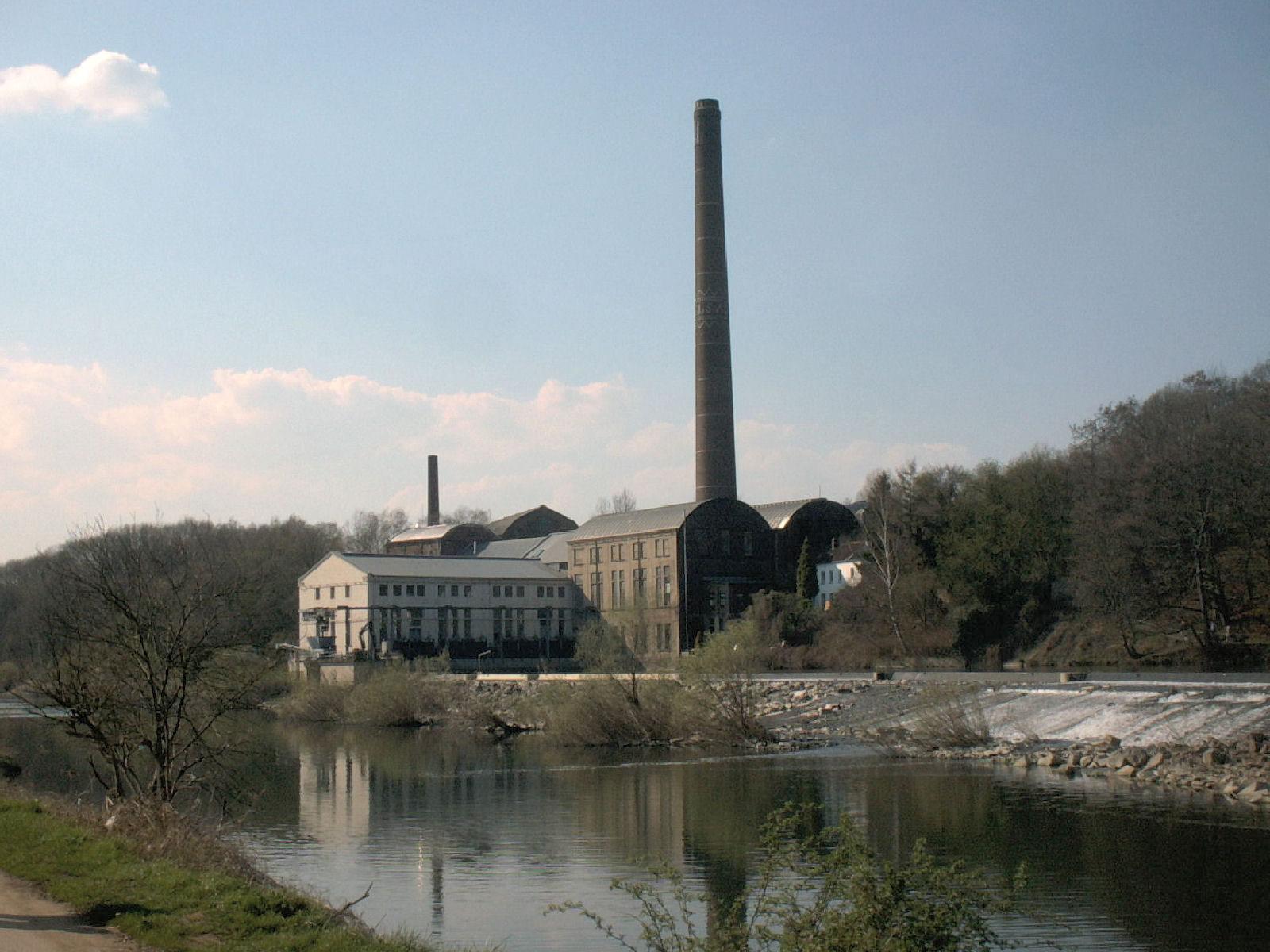 “Horster Mühle” hydroelectric power station, general view from east, in Essen, Germany